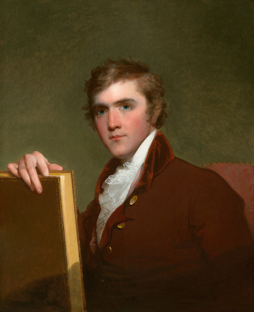 Portrait of Horace Binney by Gilbert Stuart, 1800. National Gallery of Art: The Collection: Horace Binney oil on wood overall: 73.5 x 60.5 cm (28 15/16 x 23 13/16 in.) framed: 104.1 x 91.4 x 11.4 cm (41 x 36 x 4 1/2 in.)